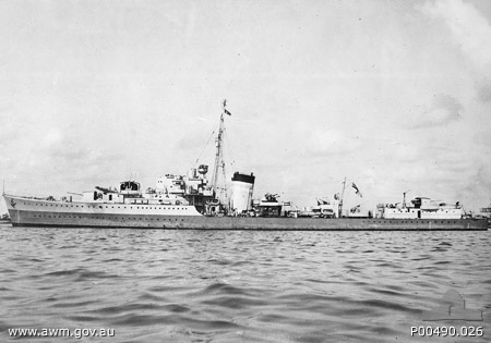 AWM Caption: Port broadside view of the N Class Destroyer HMAS Napier, one of the five ships of this class which served in the Royal Australian Navy during the Second World War. (...)